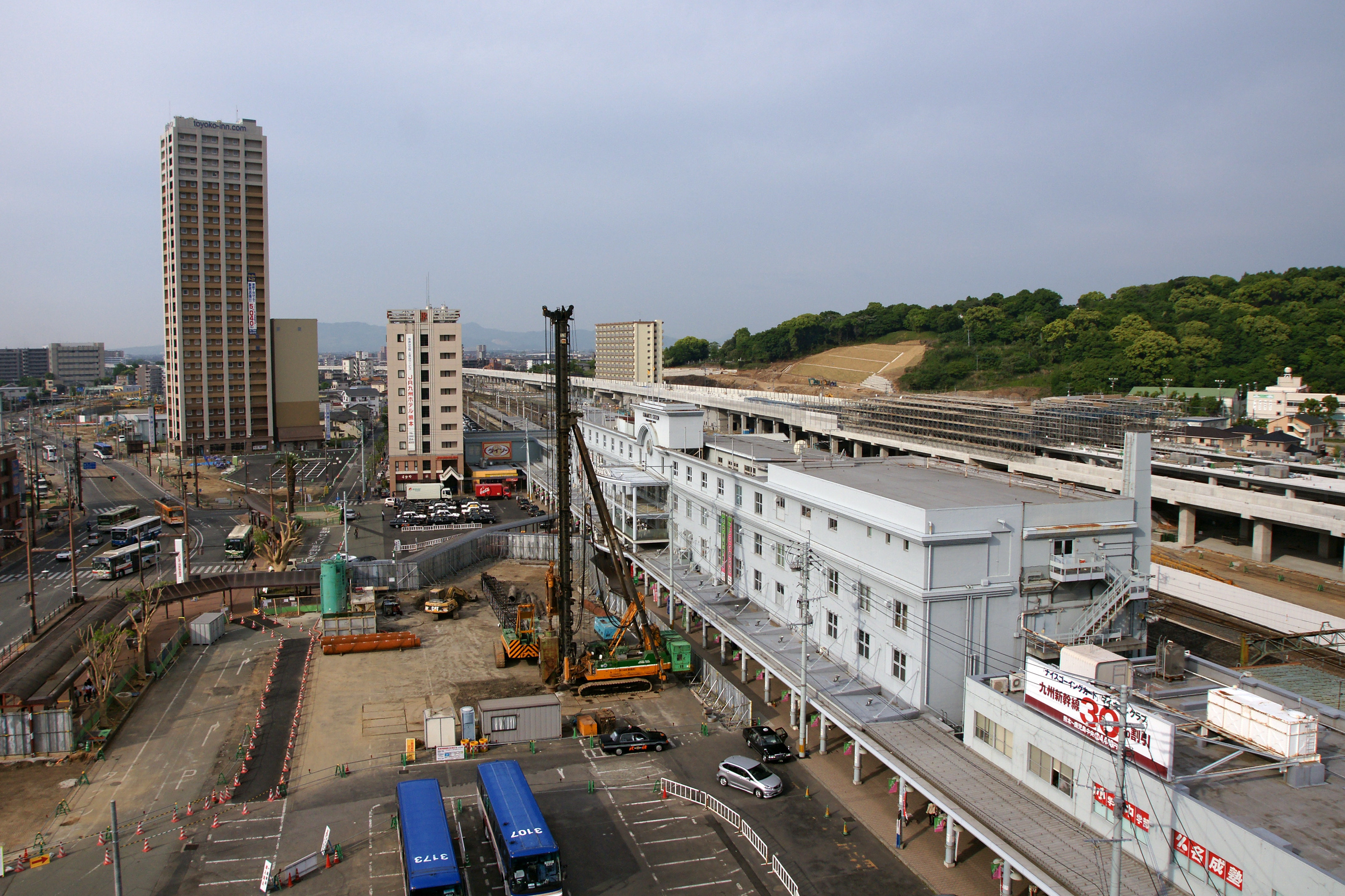 Kumamoto Station, Kumamoto, Kumamoto prefecture, Japan